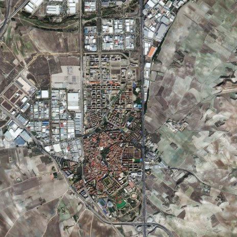 The diverse landscapes of the autonomous Community of Madrid in the heart of Spain are evident in this week’s image. The community and country’s capital city is visible near the centre of the image. Zooming in, we can see the Buen Retiro park just east of the city centre with its large, artificial pond. About 3.5 km due north sits the Santiago Bernabéu football stadium. Southeast of the stadium we can see another circular structure: the Las Ventas bullfighting ring. In the upper left corner of the image is the El Pardo mountain and protected natural park, which is popular for mountain biking. The other areas surrounding Madrid are blanketed with agricultural structures. East of the city are large fields along the Jarama river, and more areas of agriculture appearing brown further east still. This image, also featured on theEarth from Space video programme, was taken by the Sentinel-2A satellite on 16 November 2015. Launched in June 2015, Sentinel-2 can map changes in land cover such as forest, crops, grassland, water surfaces and artificial cover like roads and buildings in cities. Early results from the mission on mapping changes in land cover are expected to be presented at the upcoming Living Planet Symposium, held in Prague in May. The event brings together scientists and users to present their latest findings on Earth’s environment and climate derived from satellite data.